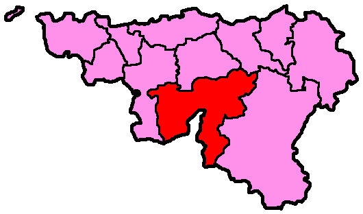 Location of the constituency of Dinant-Philippeville in Wallonia